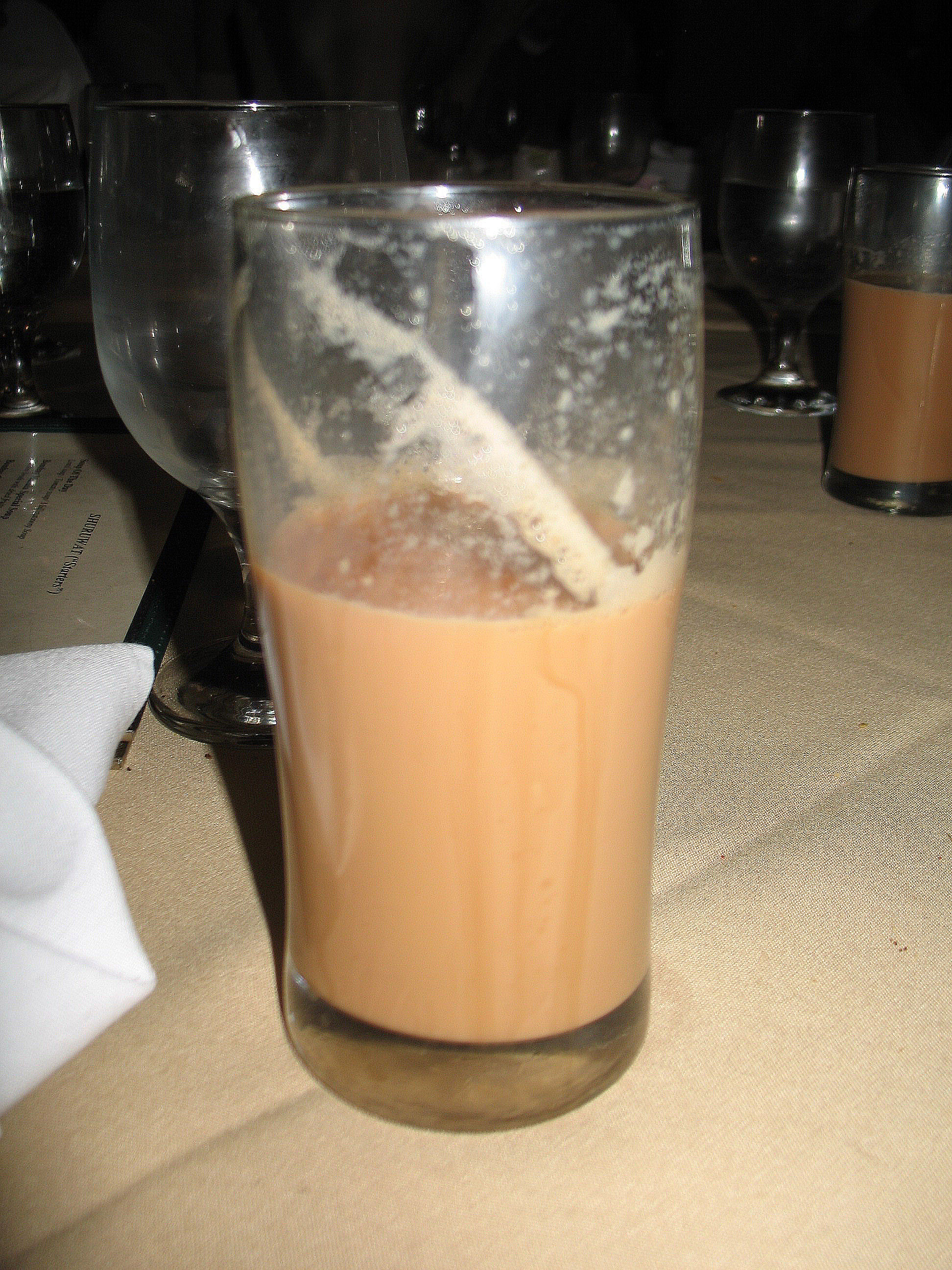 Due the carelessness of another table earlier on, we drank chai in glasses. This caused the tea to look like chocolate milk from a distance. Bombay Masala, January 4, 2008